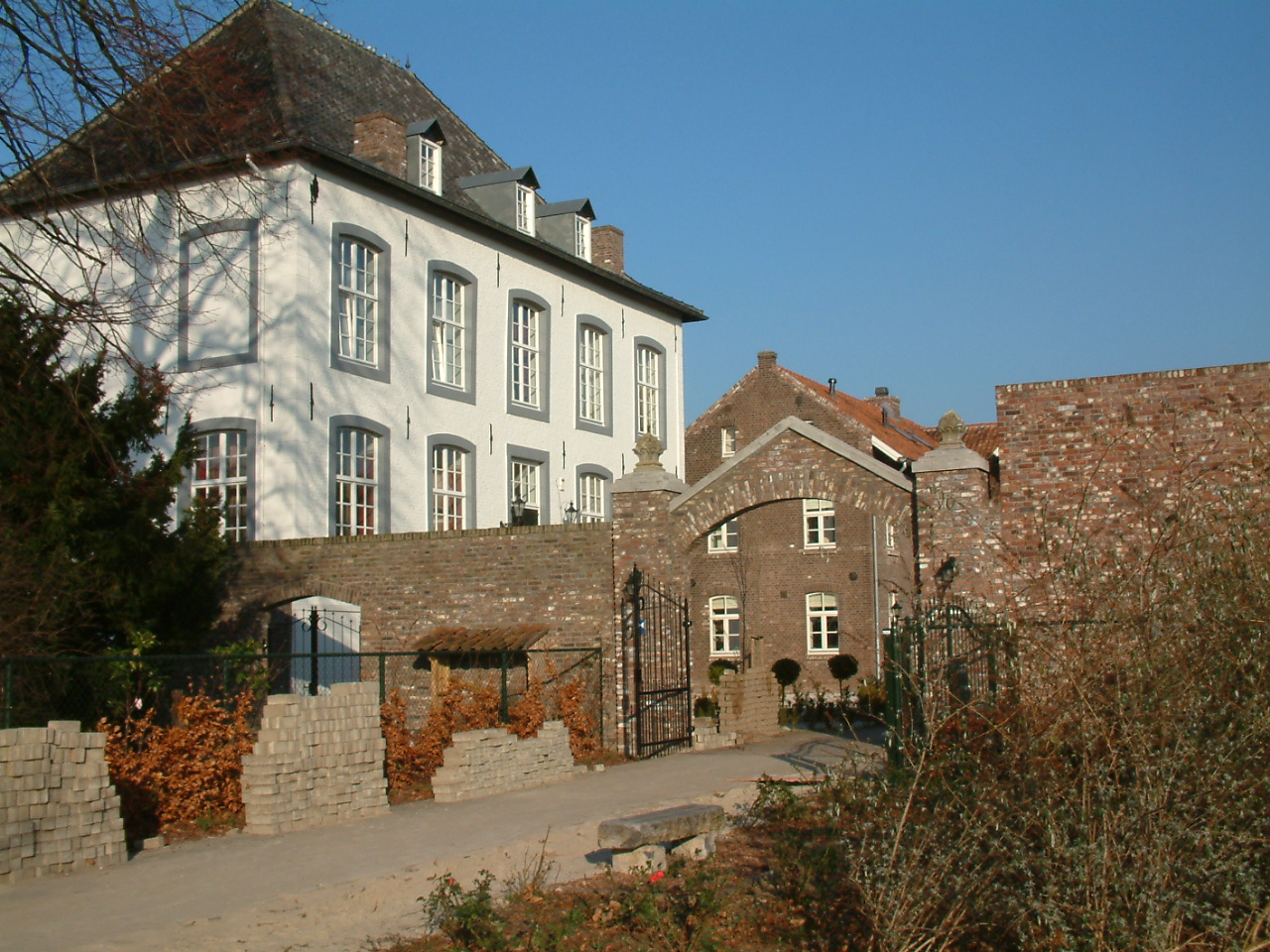 Witham House in Nieuwstadt, Limburg, The Netherlands